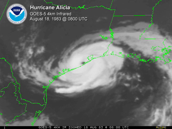 Thermal infrared image of Hurricane Alicia making landfall on August 18 at 0800 UTC.